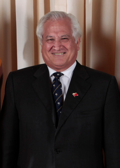 Feleti Sevele.